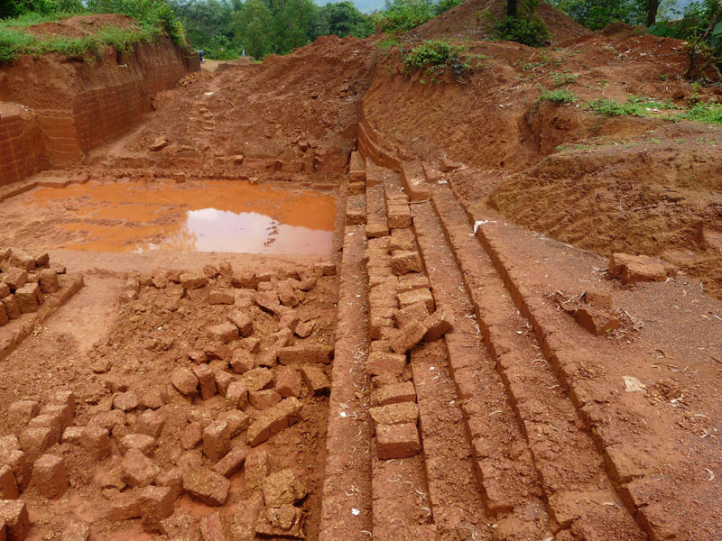 Laterite stone quarry ಮುರಕಲ್ಲ್ ದ ಗಣಿ